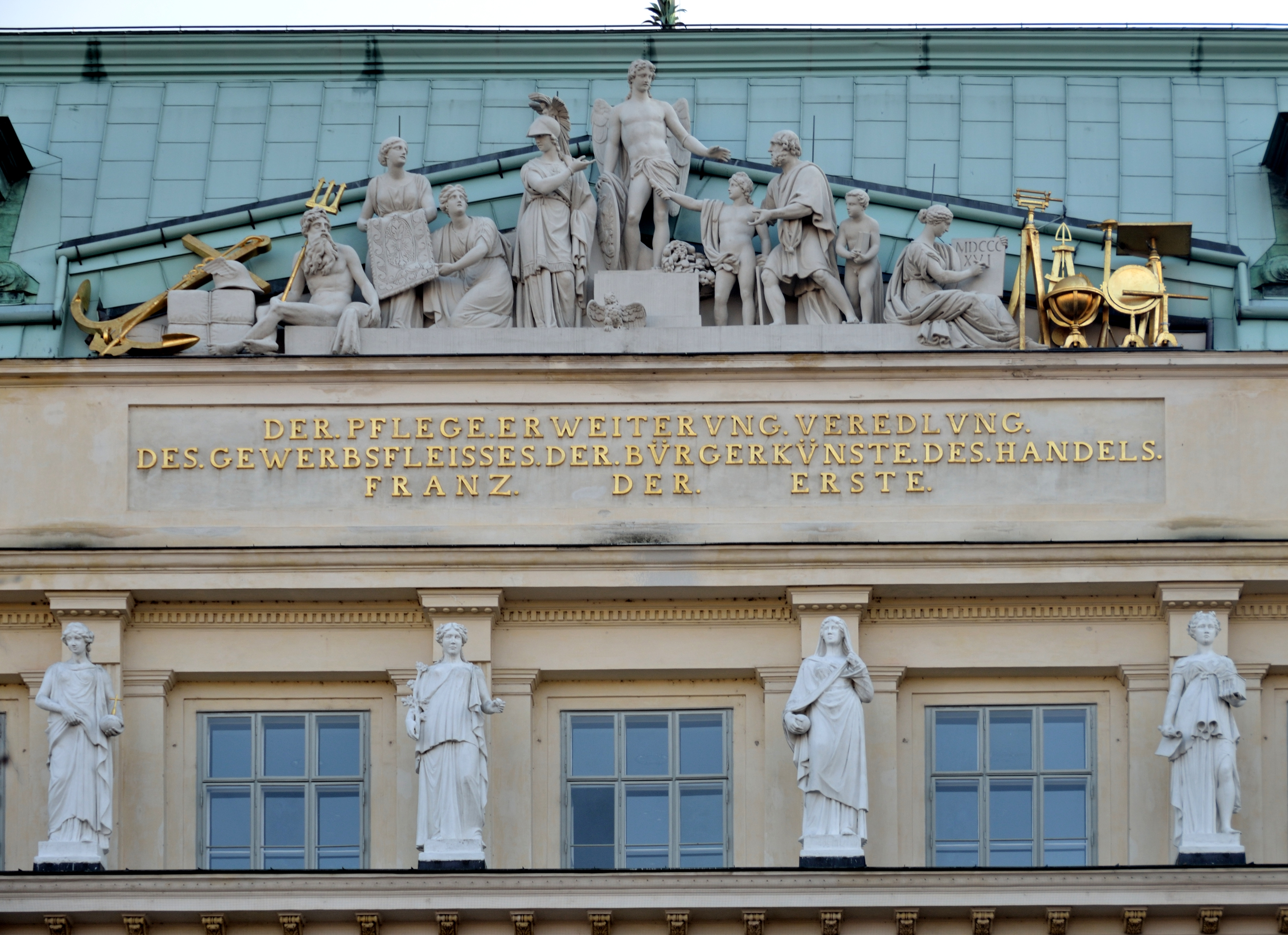 Upper part of the main building of the Vienna University of Technology in Vienna.